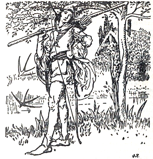 An illustration from Howard Pyle's The Merry Adventures of Robin Hood.